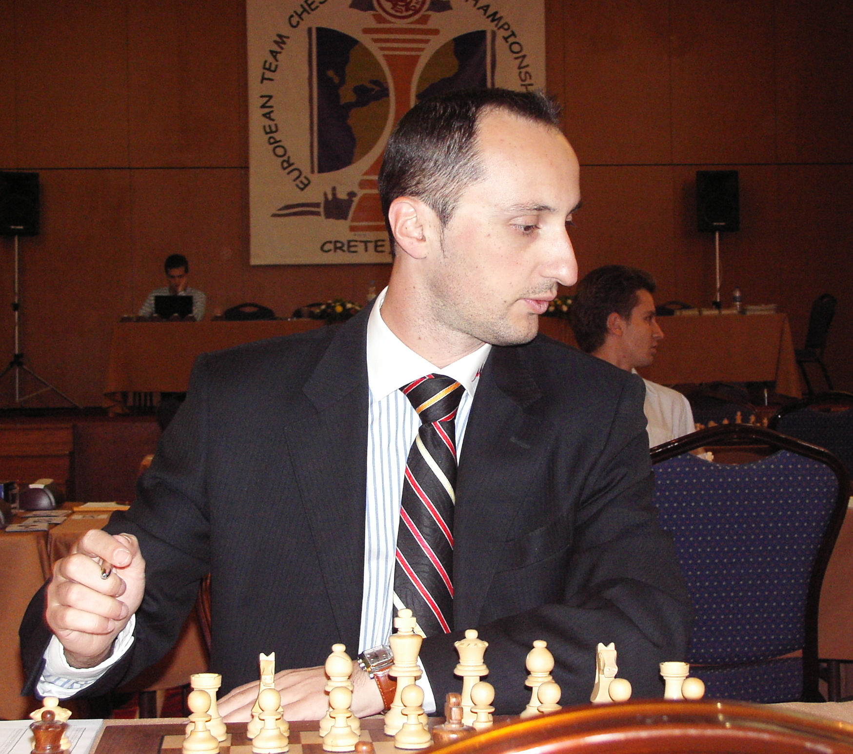 GM Veselin Topalov (Bulgaria), Heraklion 2007